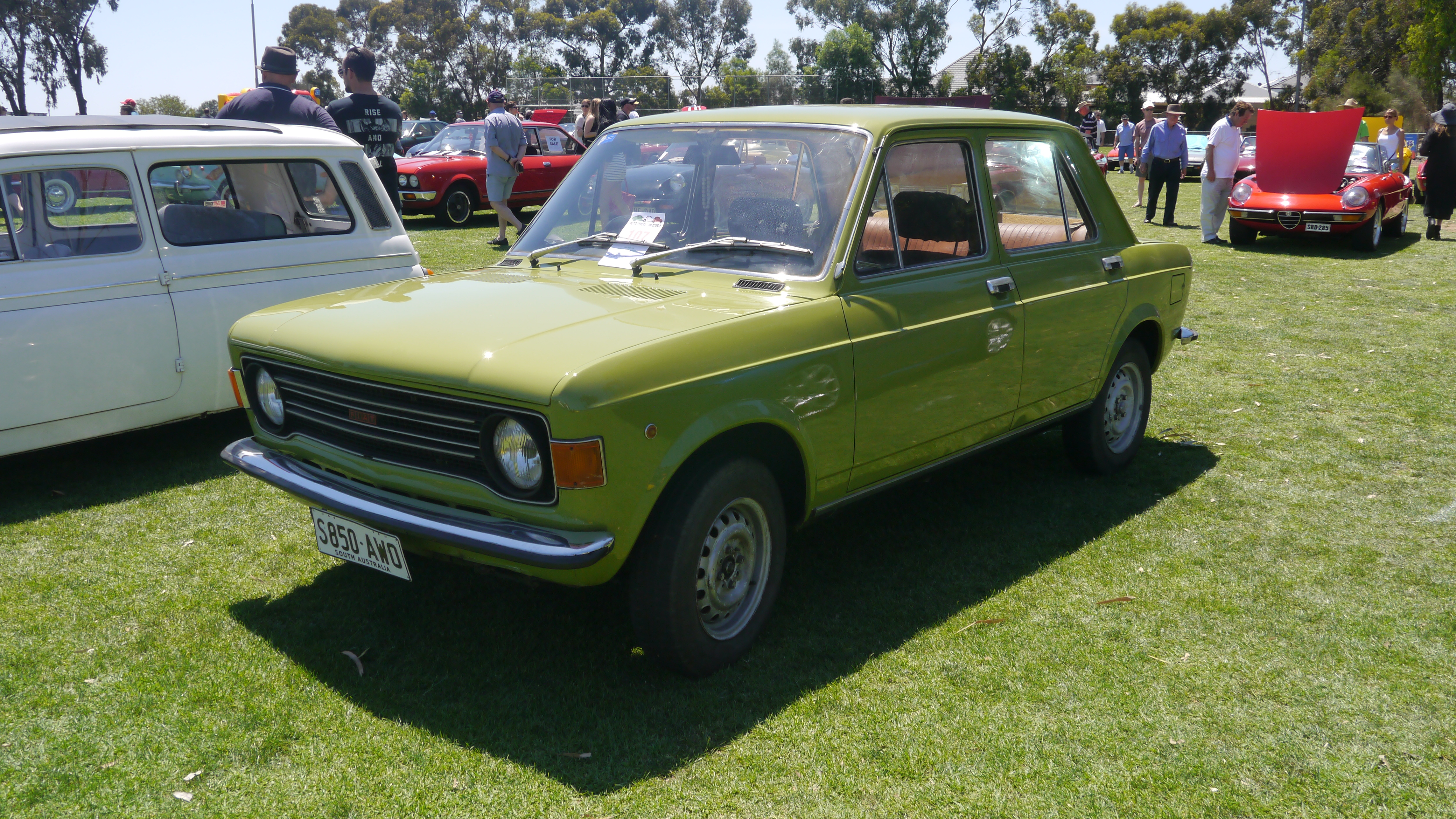 Fiat 128